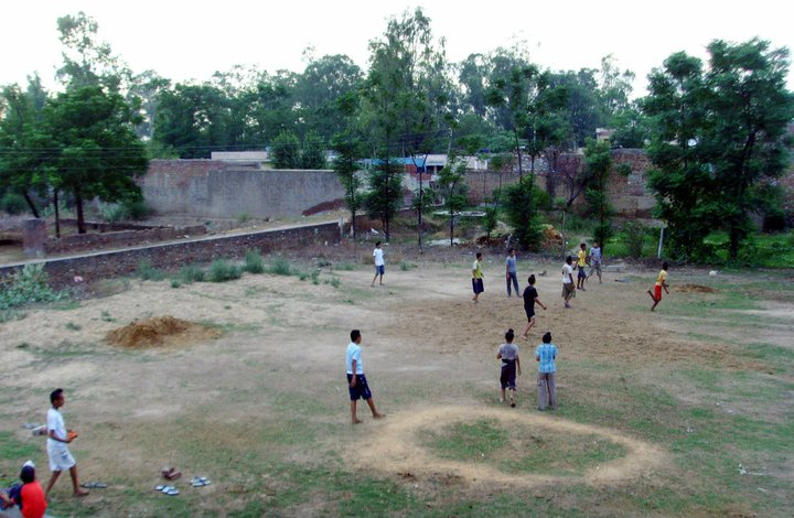 Desi PlaygroundHarinderpal Singh